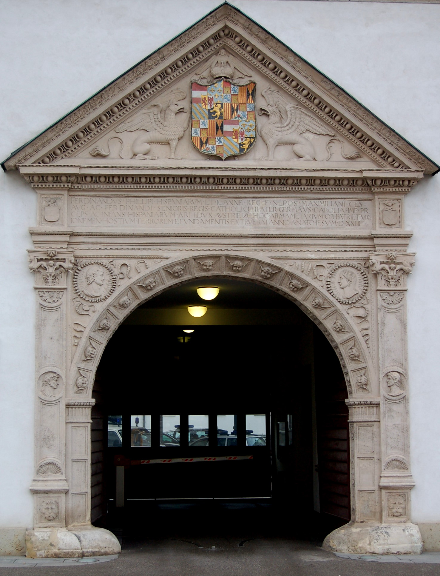 Renaissance portal of the former Kaiserliches Zeughaus (Imperial armoury) of Wiener Neustadt, Lower Austria. After having suffered damage during World War II, the armoury was demolished and replaced by a modern building, now the police headquarters. Only the portal was preserved and integrated into the modern structure